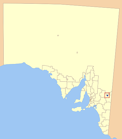 Map of South Australia showing the location of the Gerard Local Government Area. A modification of GDFL map by Astrokey44; found here: File:SA_LGA_blank.png